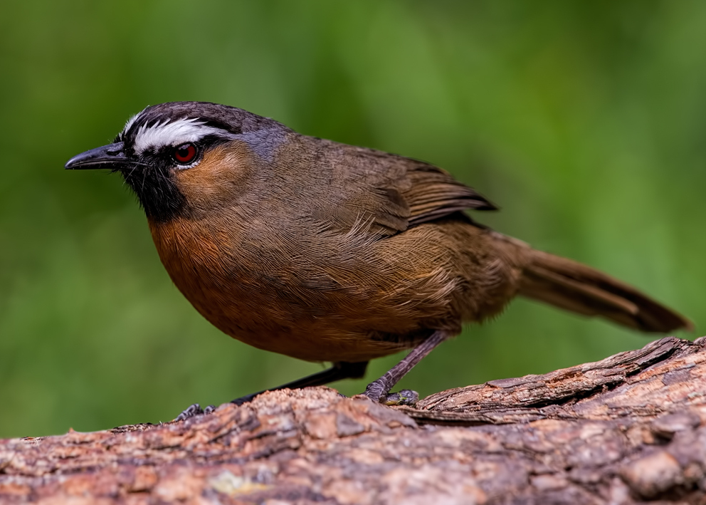 The Black Chinned Laughingthrush Trochalopteron cachinnans cachinnans from India The Nilgiris Ht 2200mtrs Tamil Nadu State